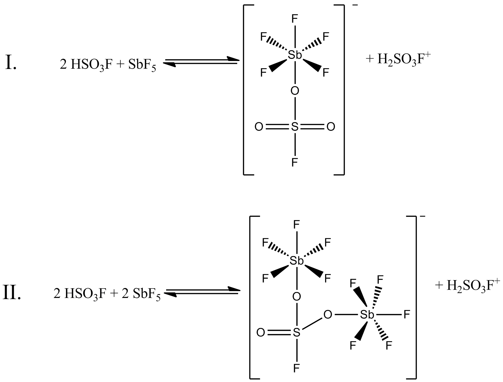 The structure of the magic acid system